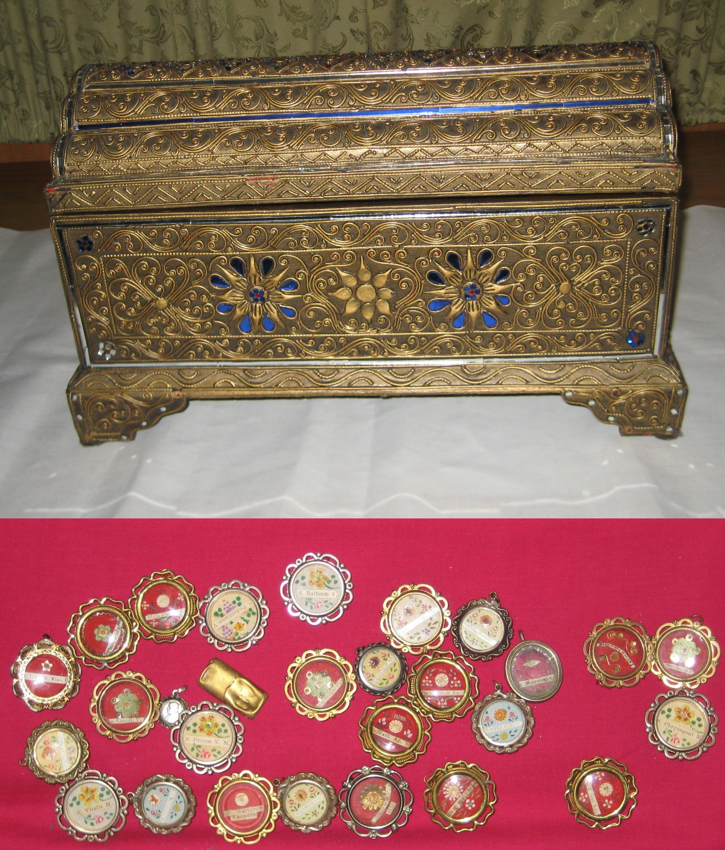 This reliquary at Blessed John XXIII National Seminary in Weston, Massachusetts includes 1st-degree relics from the Apostles James the Greater, Matthew the Evangelist, Philip, Simon the Zealot, and Thomas the Twin. Other saints represented include St. Balbina, St. Marguerite Marie Alacoque, St. Stephen the Protomartyr, St. Pope Gregory VII, St. Cecil, St. Jean Vianney, St. Lawrence of Rome, St. Prisca, St. Pudens, St. Thomas Aquinas, St. Vitalis, and an unspecified Canadian martyr. February 2009 photo by John Stephen Dwyer